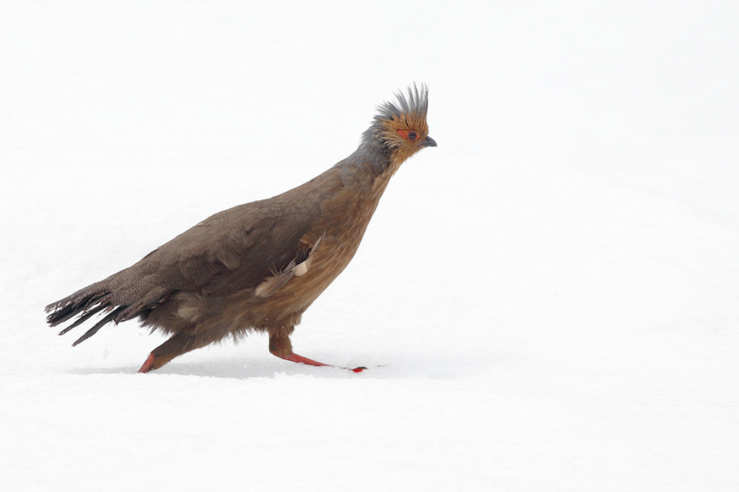 This is the state bird of Sikkim. The species Blood Pheasant female was photographed during the birding tour of GoingWild ( from Lachung North Sikkim India 14.03.2019.